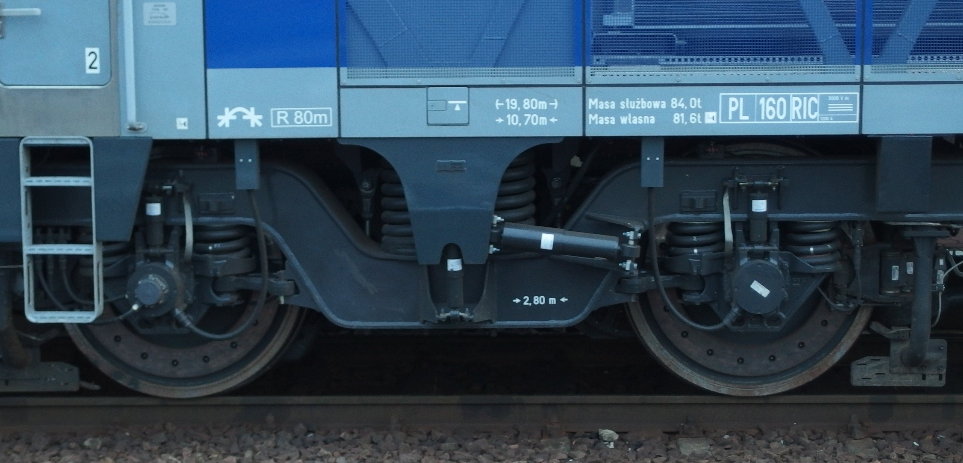 Power boogie of Pesa Gama diesel locomotive.